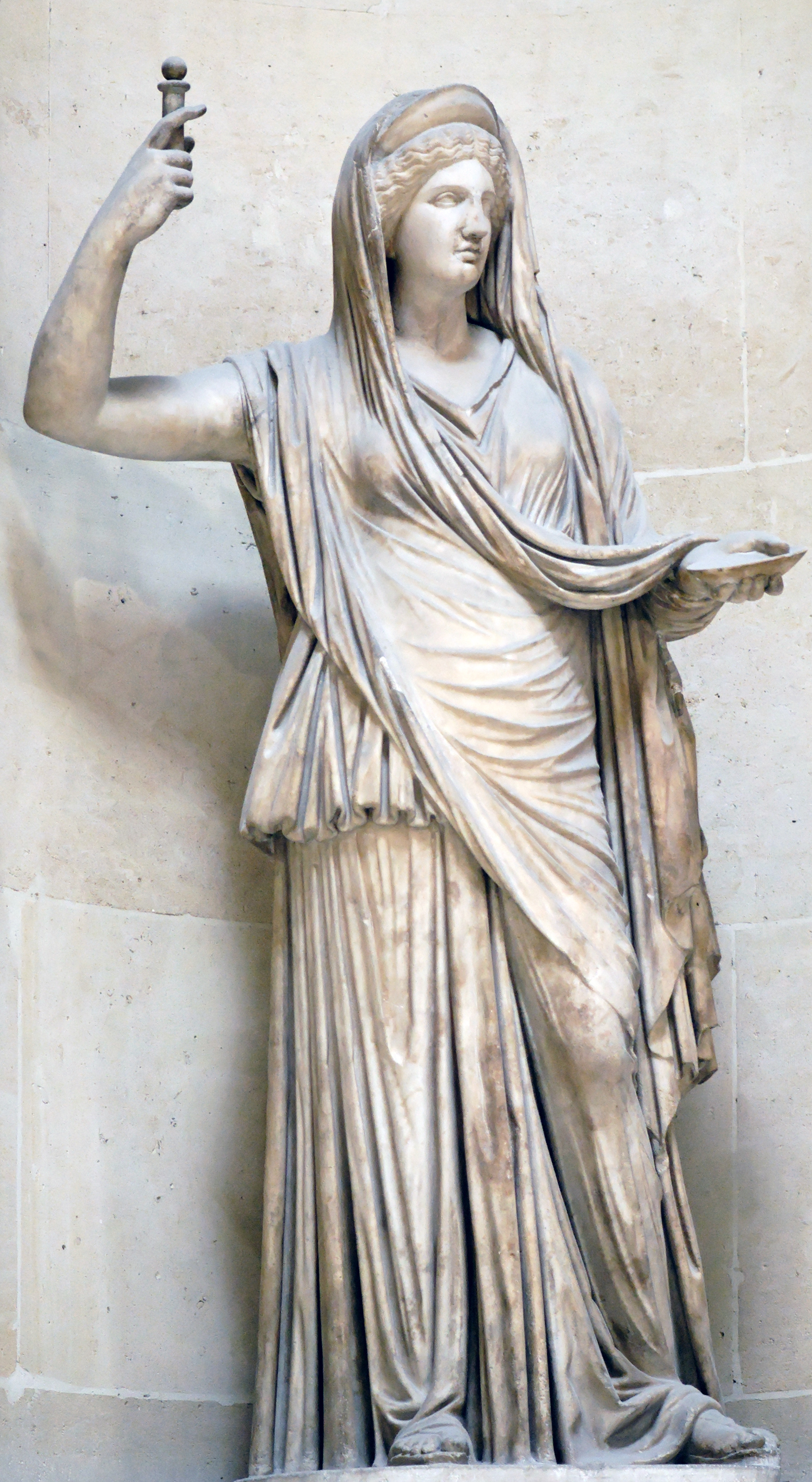 Hera Campana. Marble, Roman copy of an hellenistic original, 2nd century AD (?).